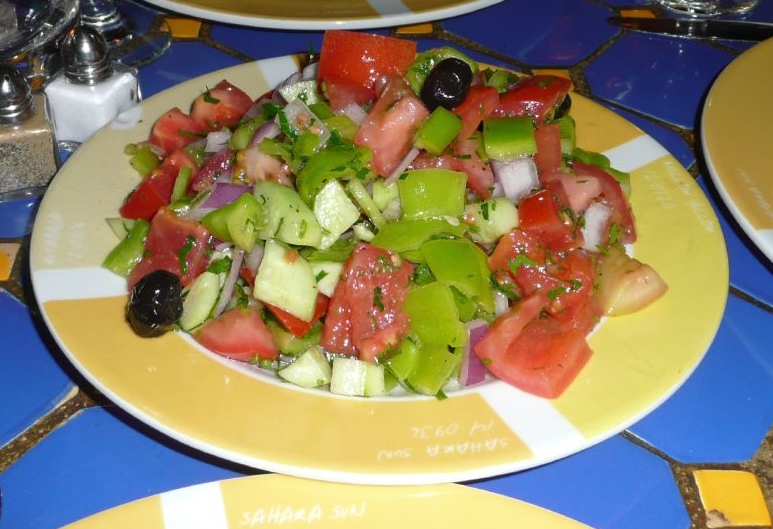 Shepherd's salad, Beyoglu